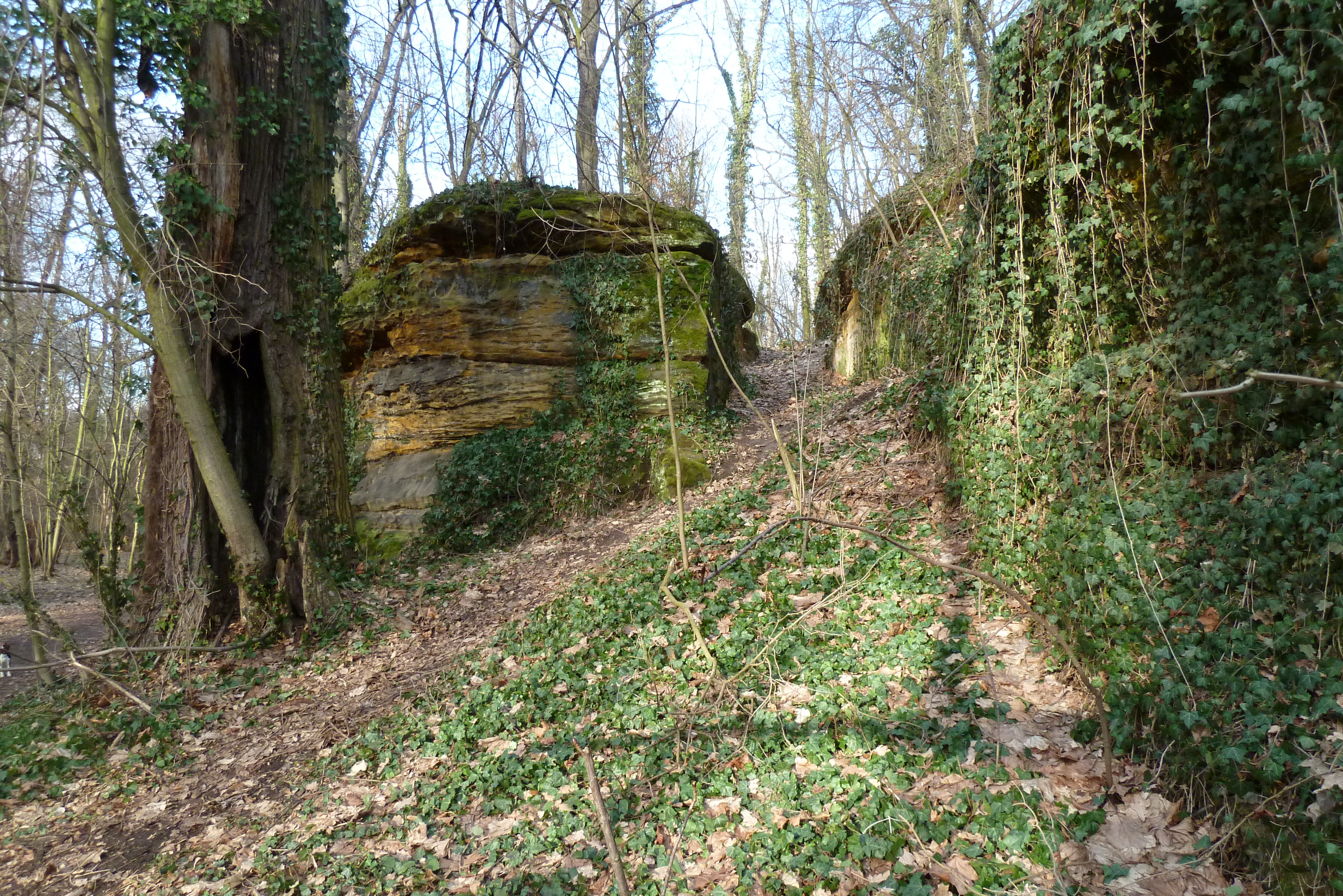 Vinorsky park - Nature Reserve